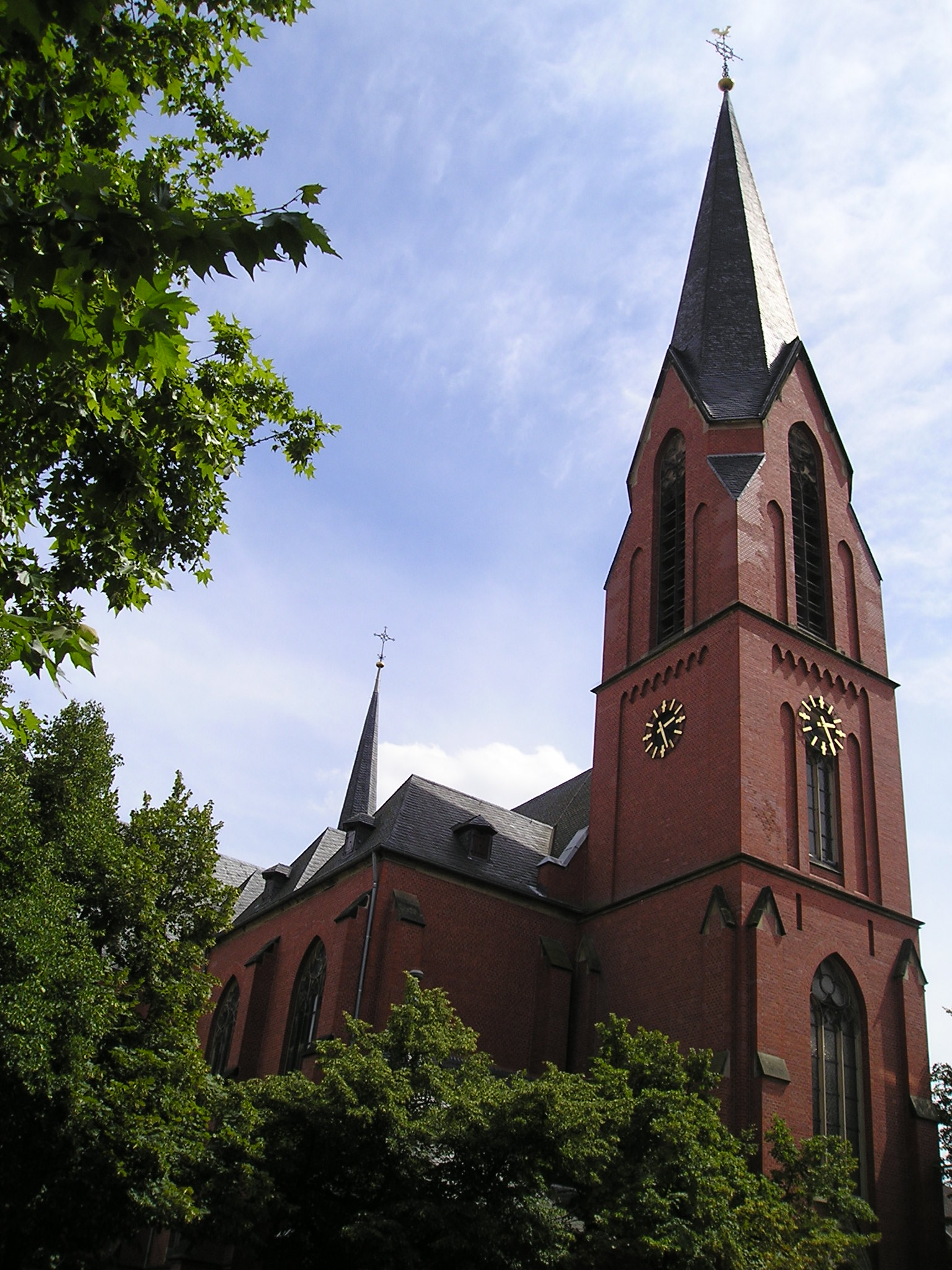 Catholic Saint Caecilia Church in Düsseldorf-Benrath